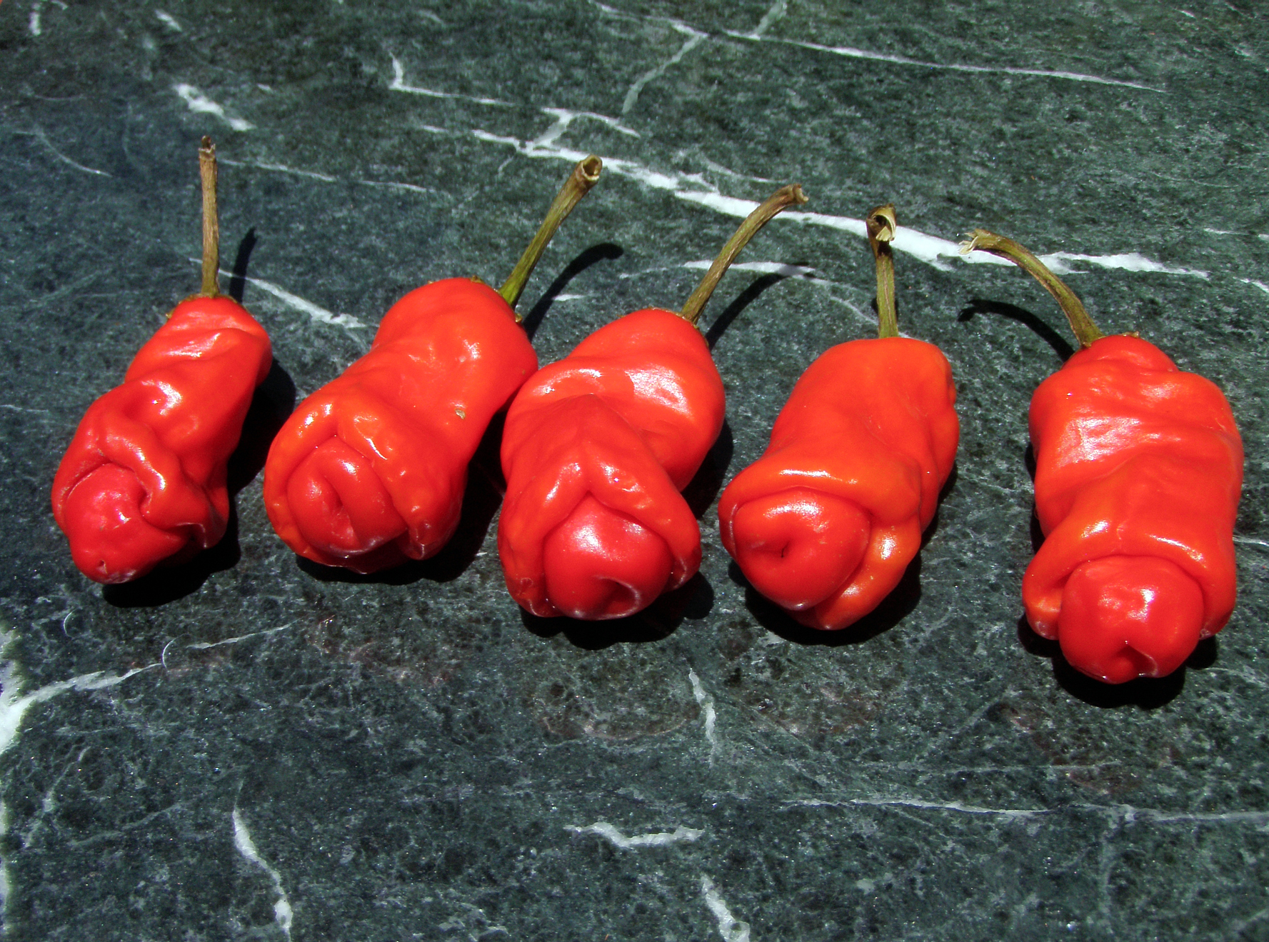 Peter pepper,Capsicum annuum var. annuum